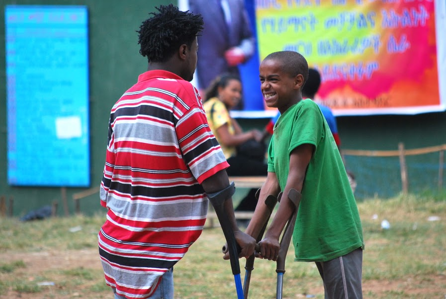 Fifteen-year-old Getahun is attending school the first time. Getahun suffers from multiple disabilities that confined him in the house before he was enrolled in Yekokeb Berhan. Now, receiving crutches and wheelchairs through linkages created by the activity, Getahun is attending special needs education. Photo: Karen Ottoni, USAID/Ethiopia